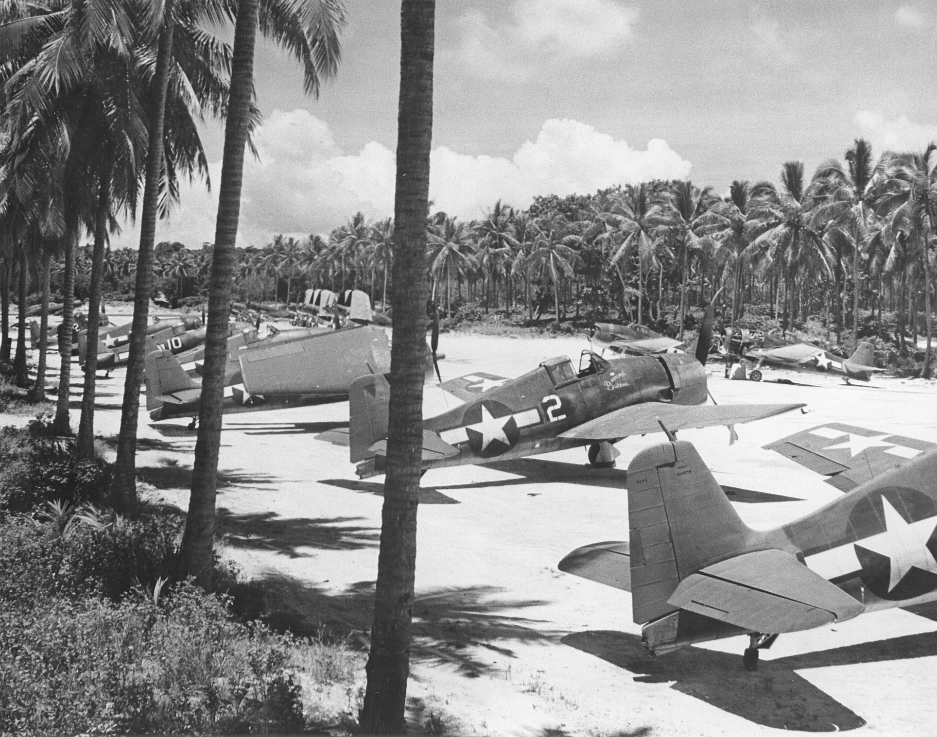 U.S. Navy Grumman F6F-3 Hellcats of Fighting Squadron 40 (VF-40) on the ground at Turtle Bay fighter strip on Espiritu Santo island in February 1944. In colonial New Hebrides (present day Vanuatu) during the Solomon Islands Campaign of WWII.